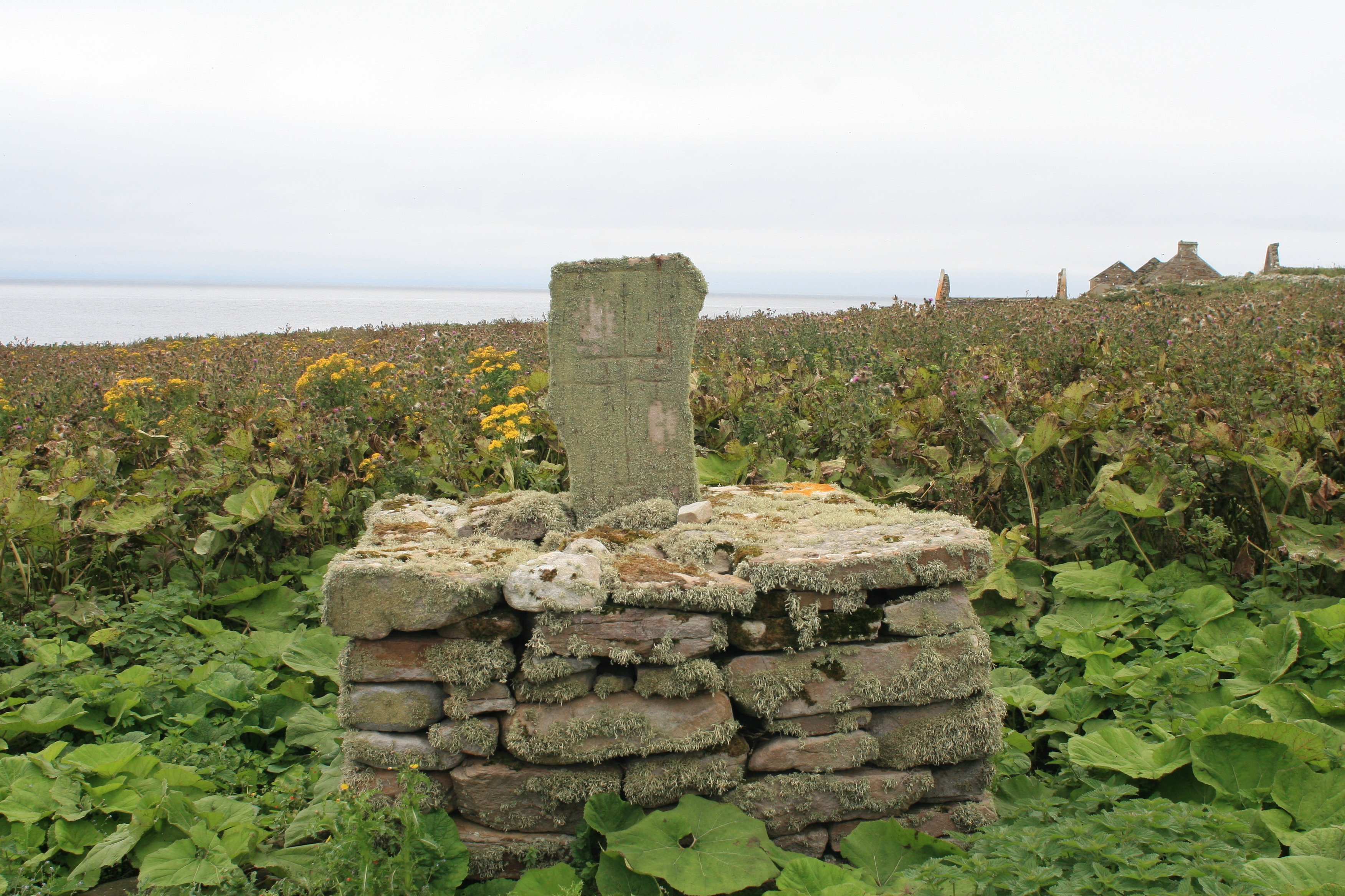 East face of the cross slab of leachta Cholmcille.